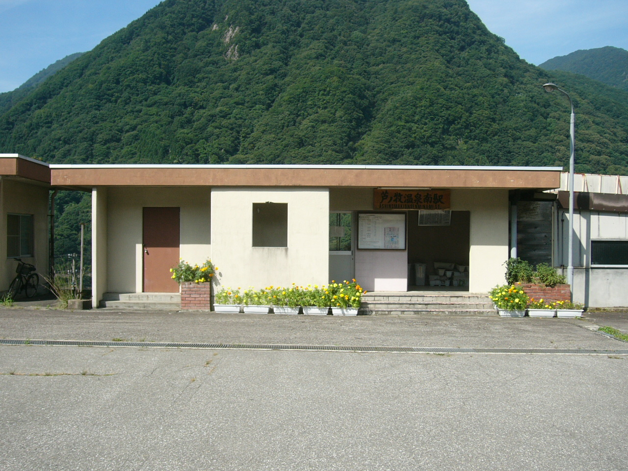 Ashinomakionsenminami Station